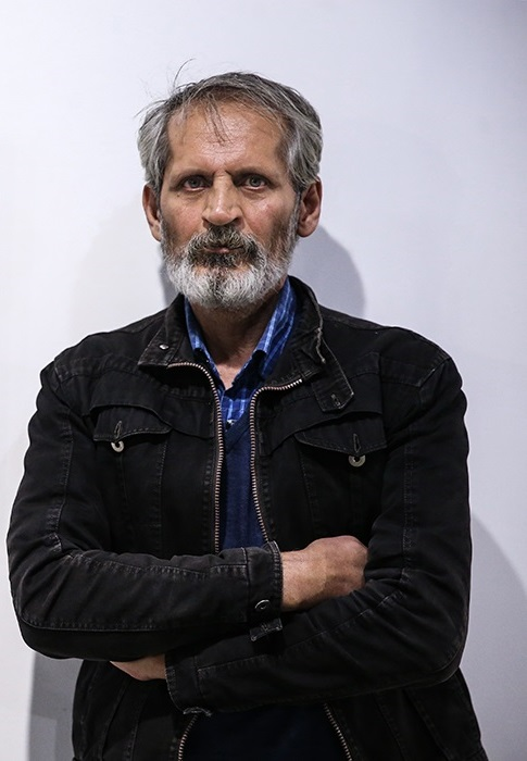 ساسان مویدی در نشست بررسی نمایشگاه عکس «آتش سرد»